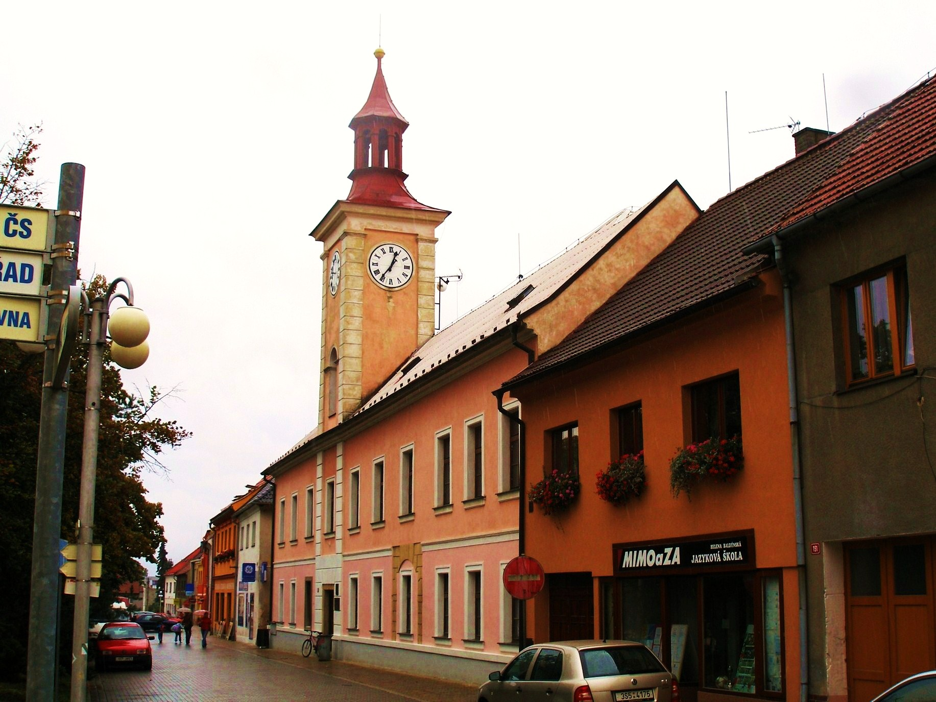 The Nové Strašecí former Town Hall, Czechia